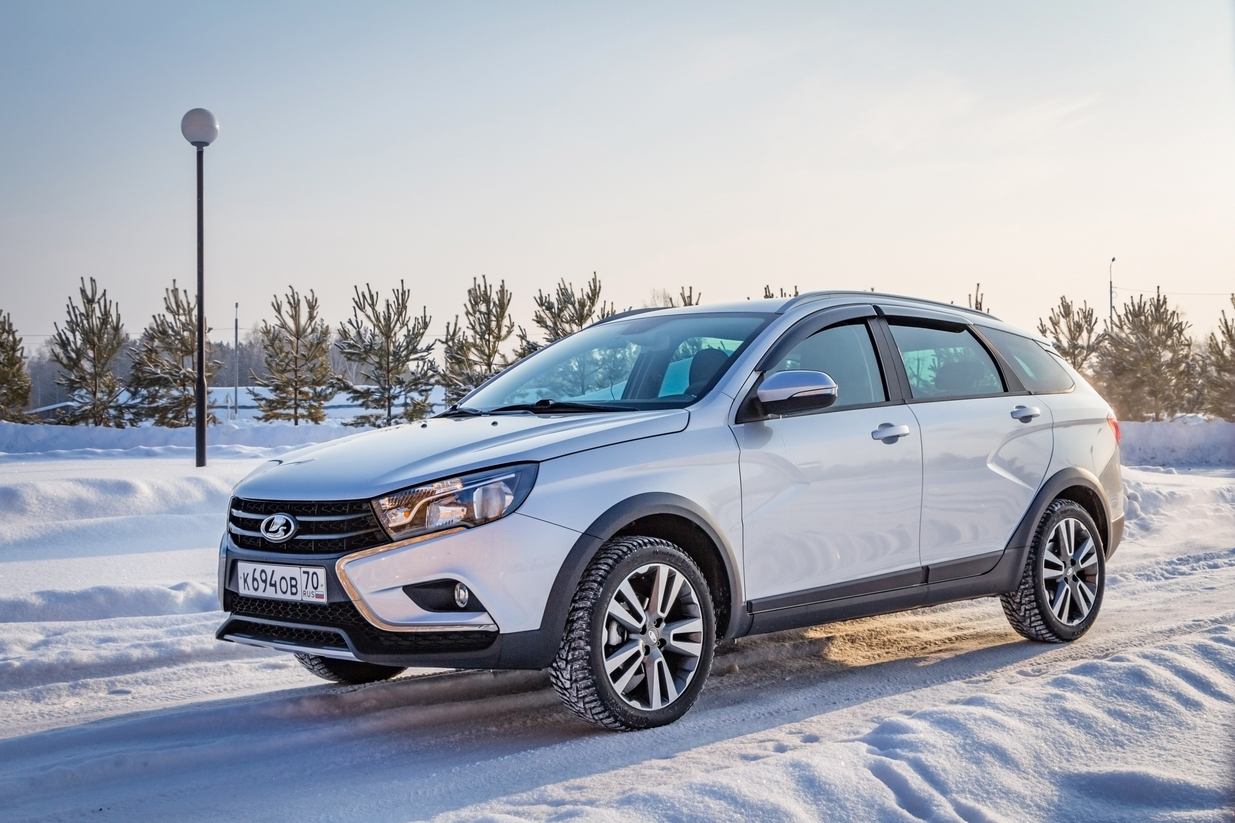 Lada Vesta SW Cross. Photographed in Tomsk, Russia.